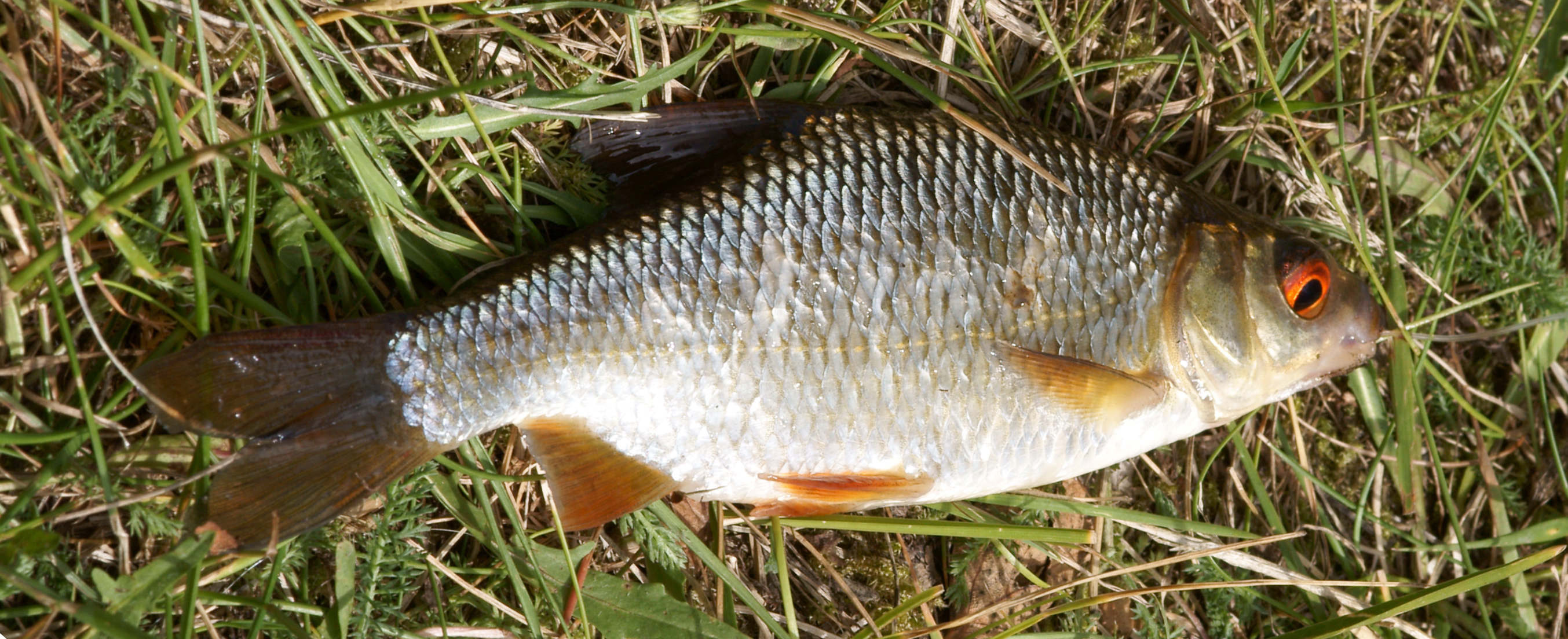 Common Roach (Rutilus rutilus).